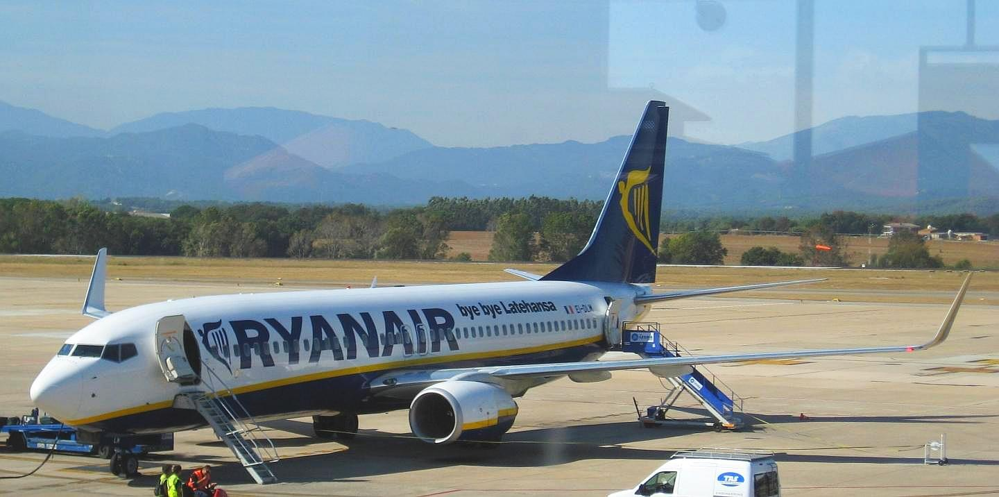 A Ryanair's airplane Boeing 737-800 at the Gerona Costa Brava Airport, Spain. "Bye bye Latehansa"